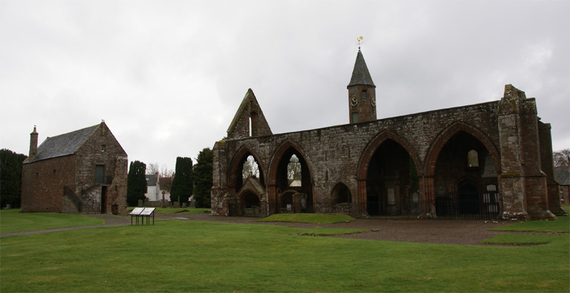 Fortrose Cathedral, Highlands, Scotland - view from north west